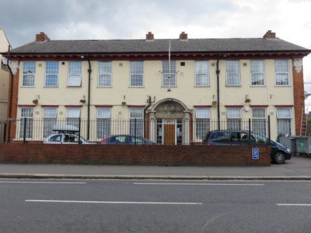 Treaty Lodge, 210 Hanworth Road, Hounslow